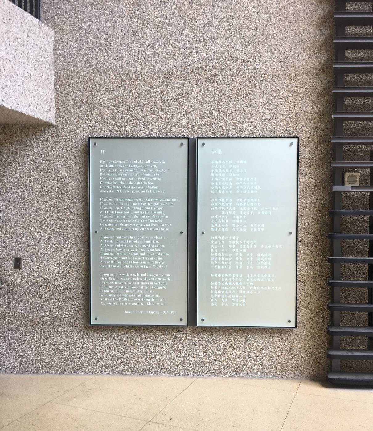 A view of the first floor of the Chingshin building F in 2019